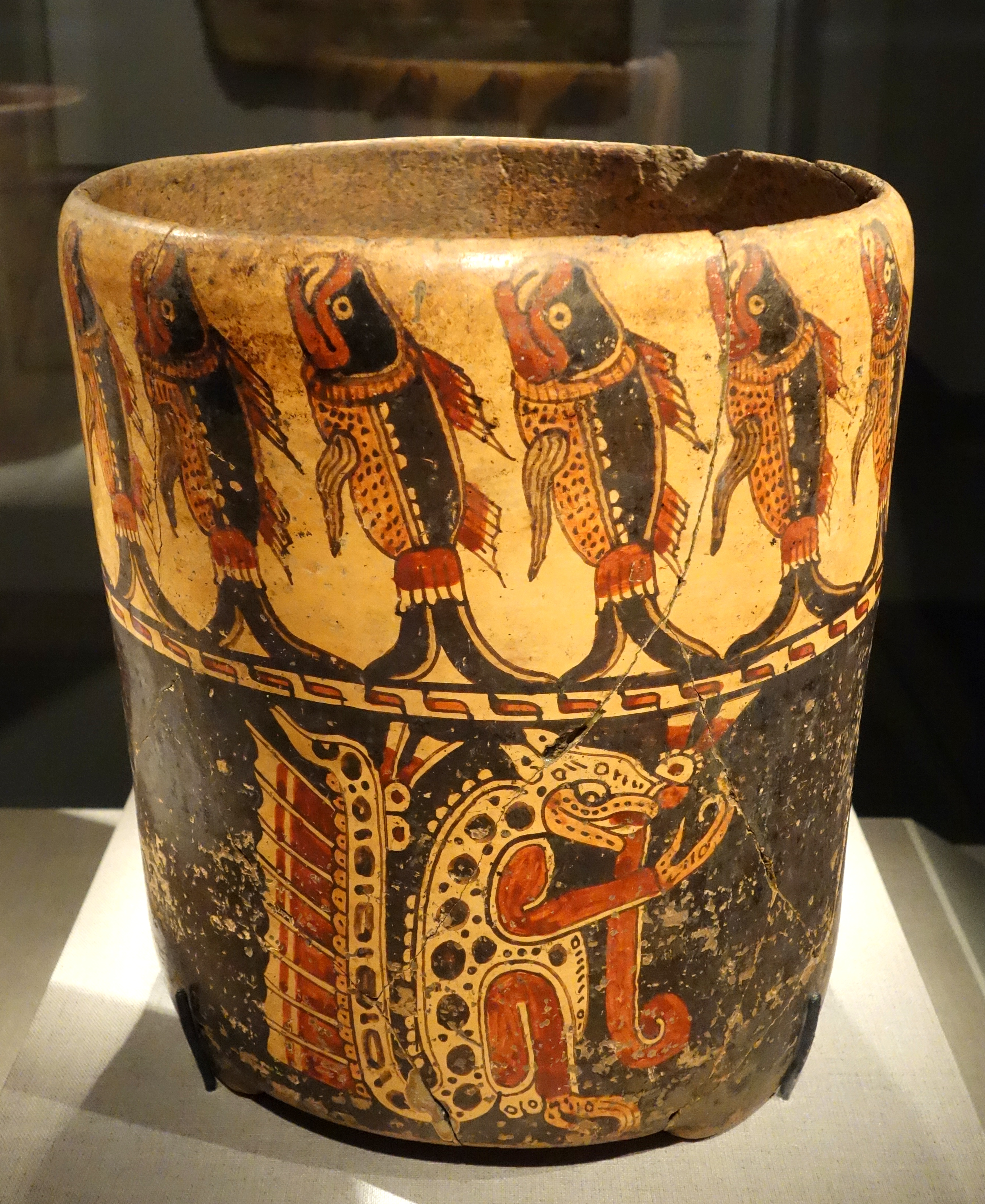 Exhibit in the De Young Museum, San Francisco, California, USA. This artwork is in the public domain because the artist died more than 70 years ago.